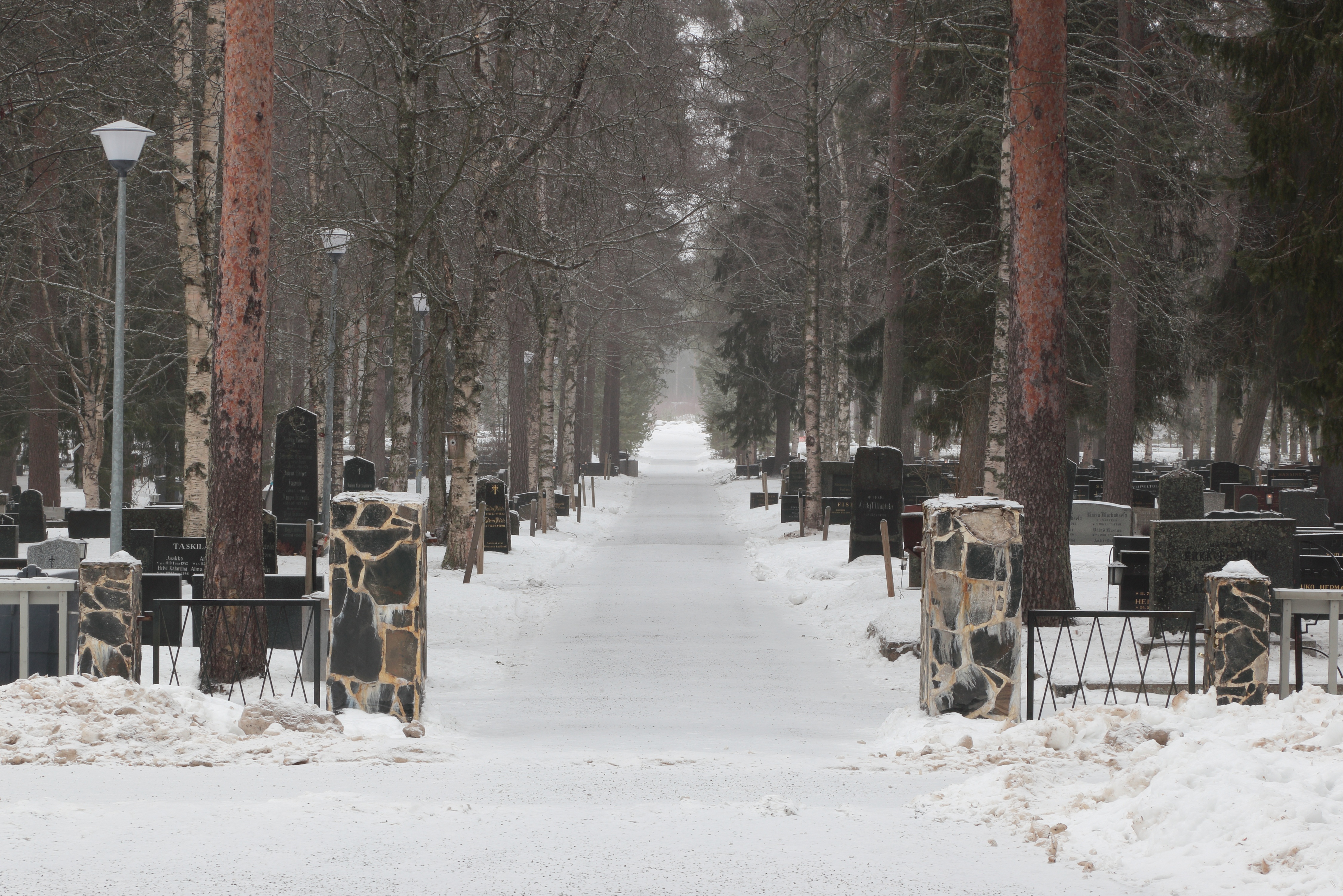 A gate of the Oulujoki cemetery in Oulu.